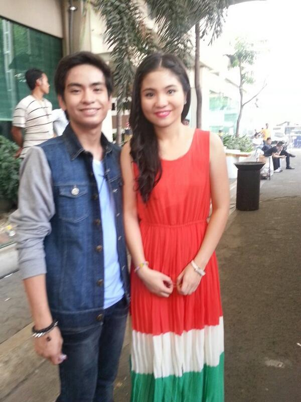 Sharlene San Pedro and Jairus Aquino backstage during ASAP Fans Day on production number ASAP Galing on May 18, 2014